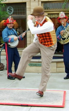 Tap dancer at Tokyo Disney Sea